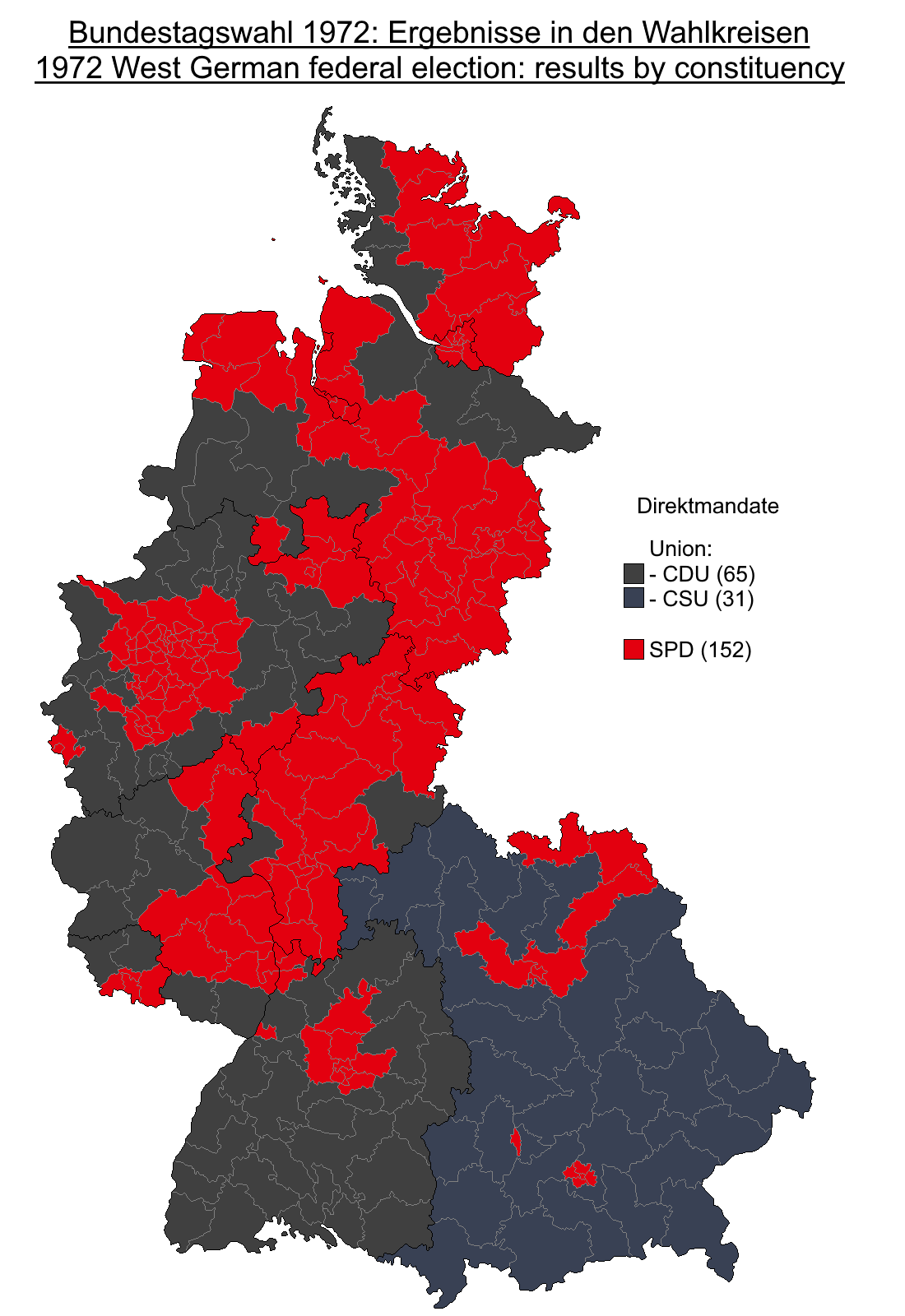 Results of the (West) German federal elections of 1972, showing direct seats won by party